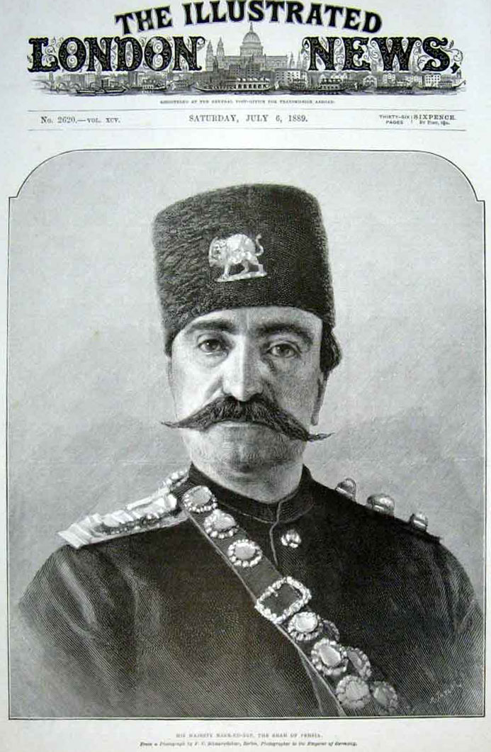 Qajar Shah in on front page of Illustrated London News.